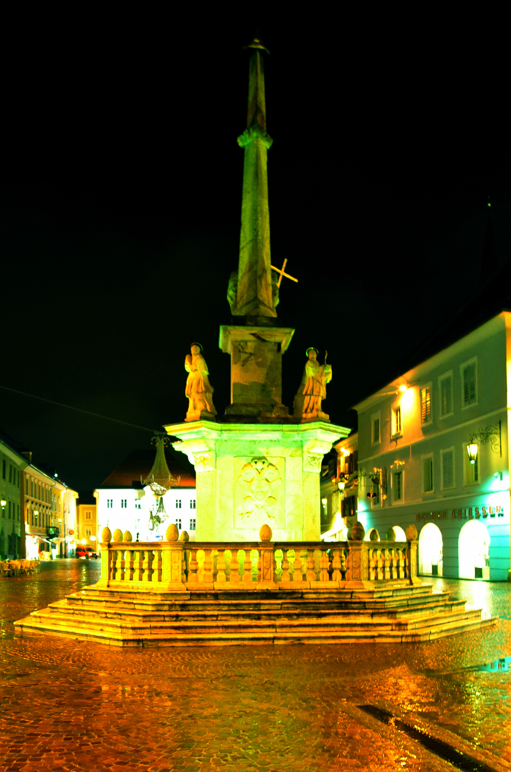 Nocturnally lit pestilential column on the main-square in the city of Sankt Veit an der Glan, Carinthia, Austria